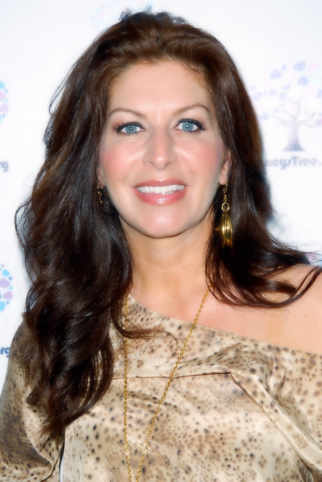 Tammy Pescatelli - Nancy's Tree